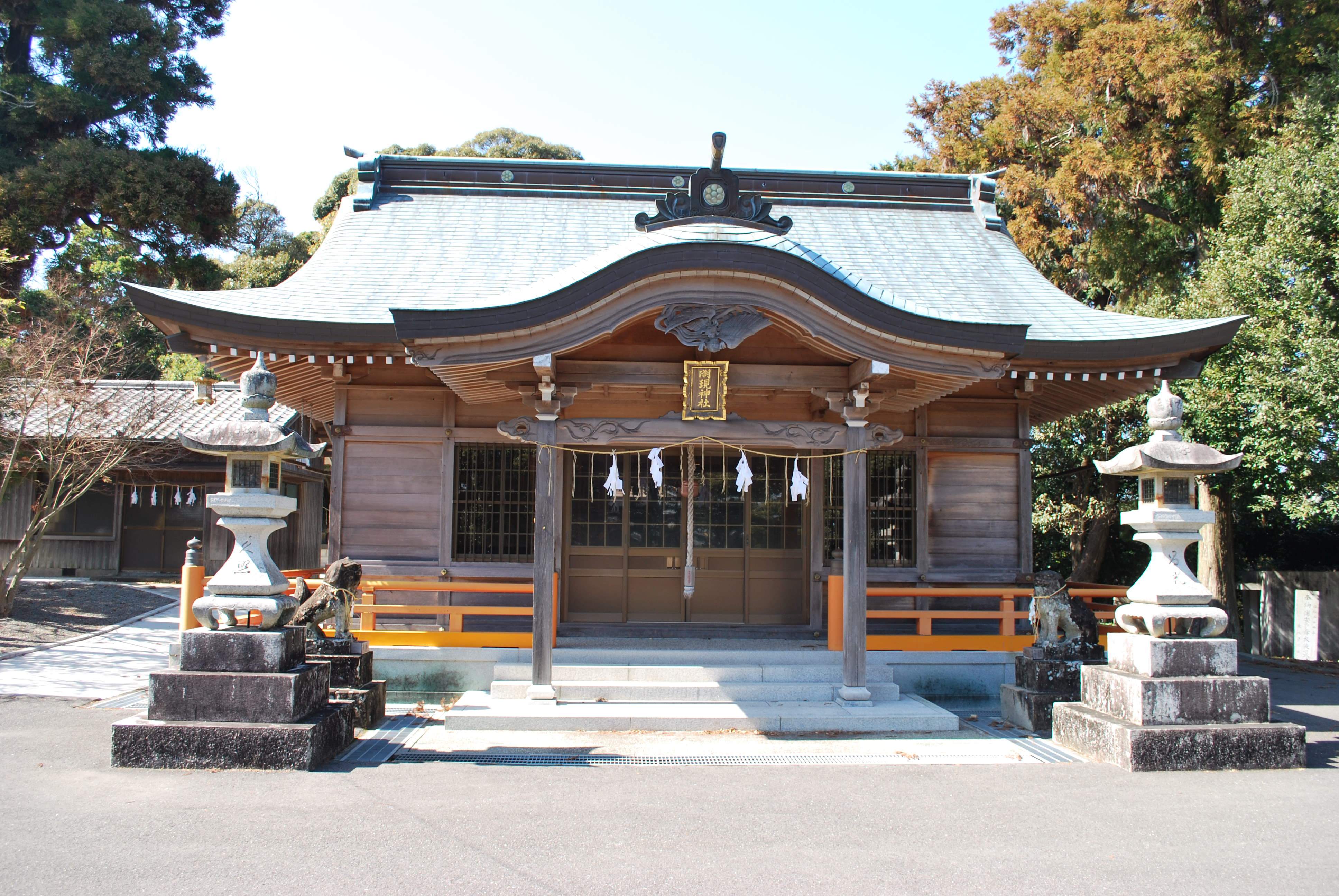 Front shrine, Myōken-jinja